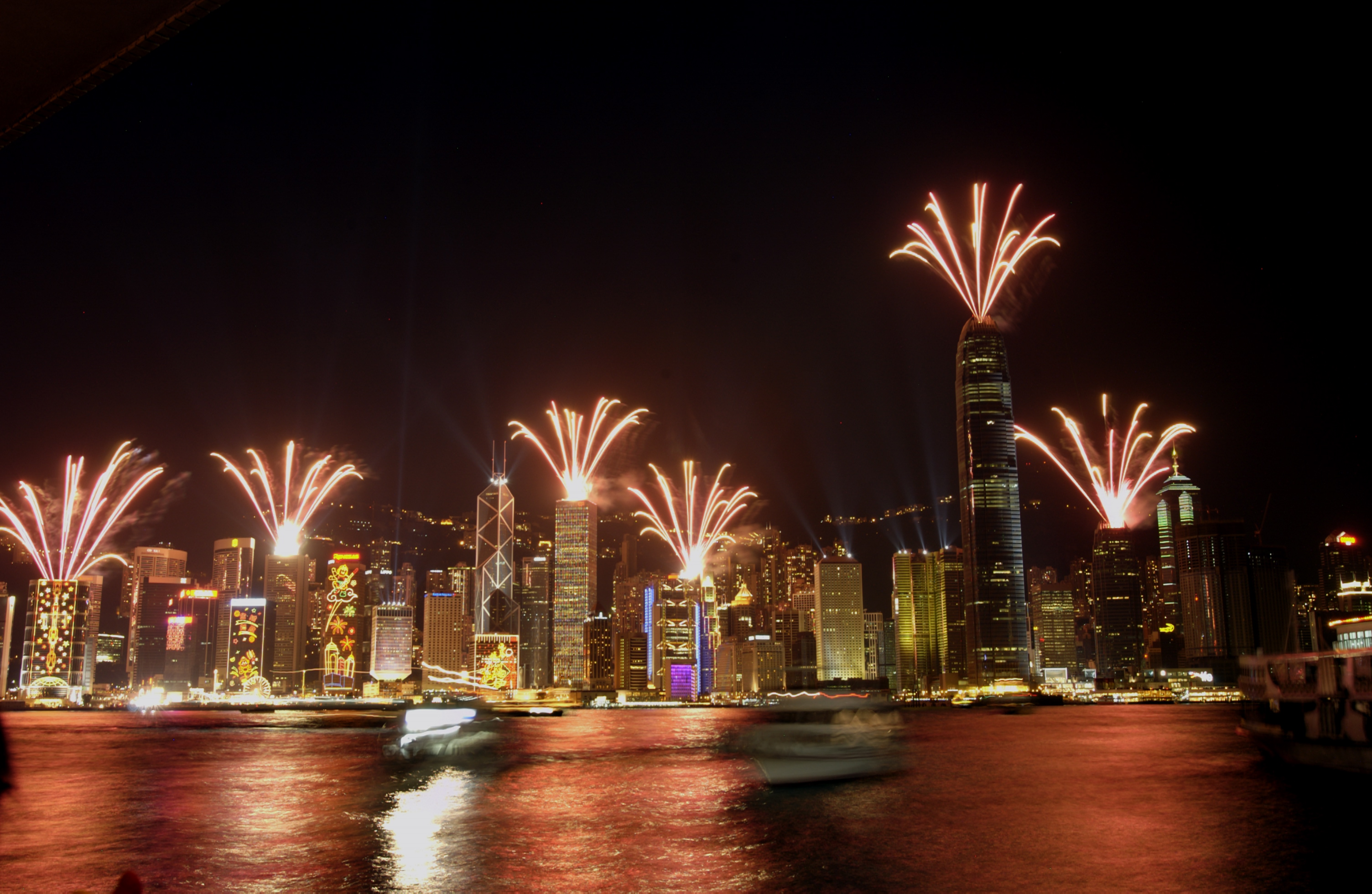 Hong Kong's Symphony of Lights fireworks